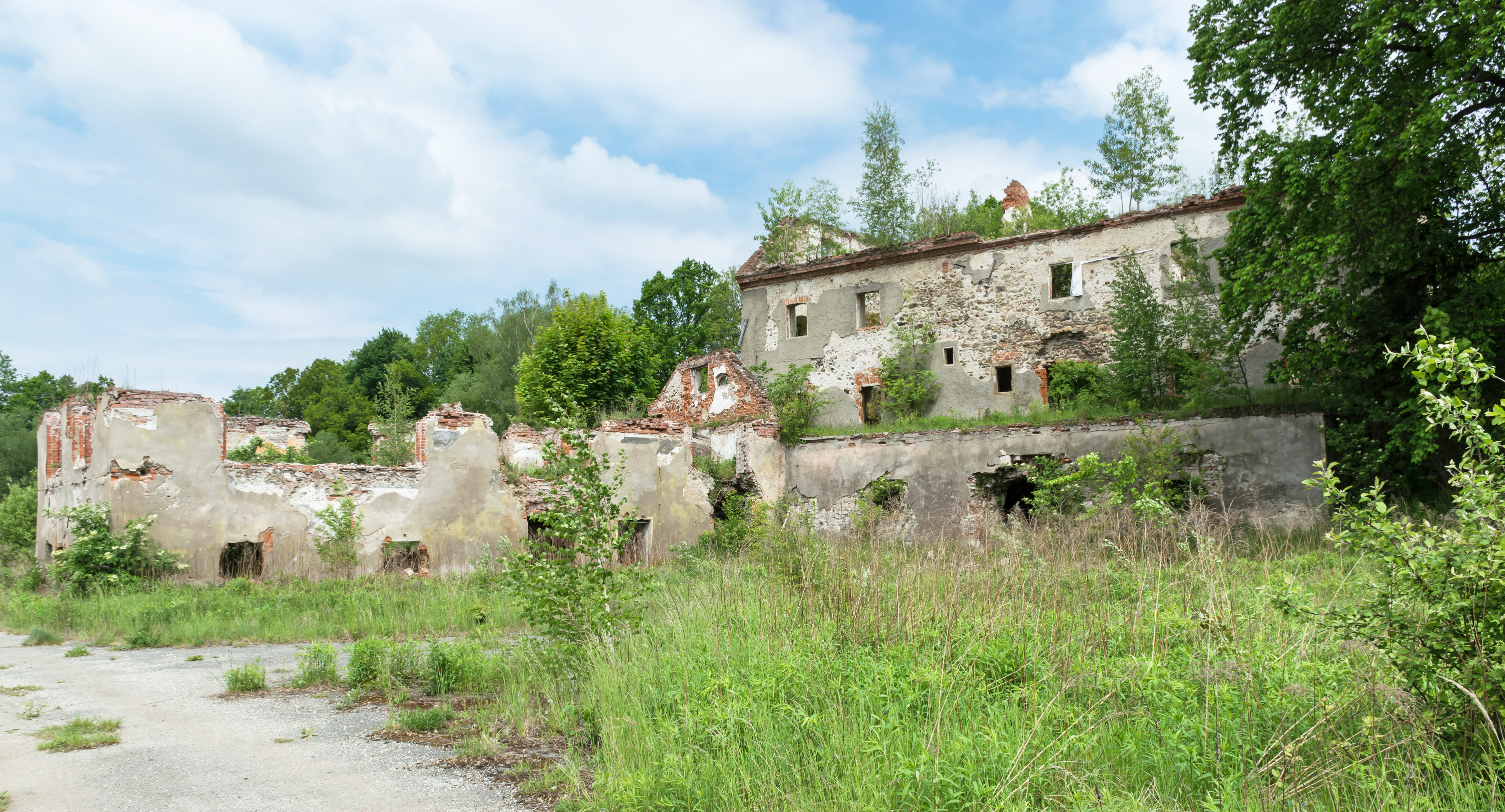 Rothenhof Manor house in Trzebieszowice